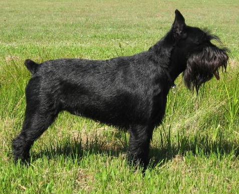 Black Standard Schnauzer female, cropped ears, docked tail, outside